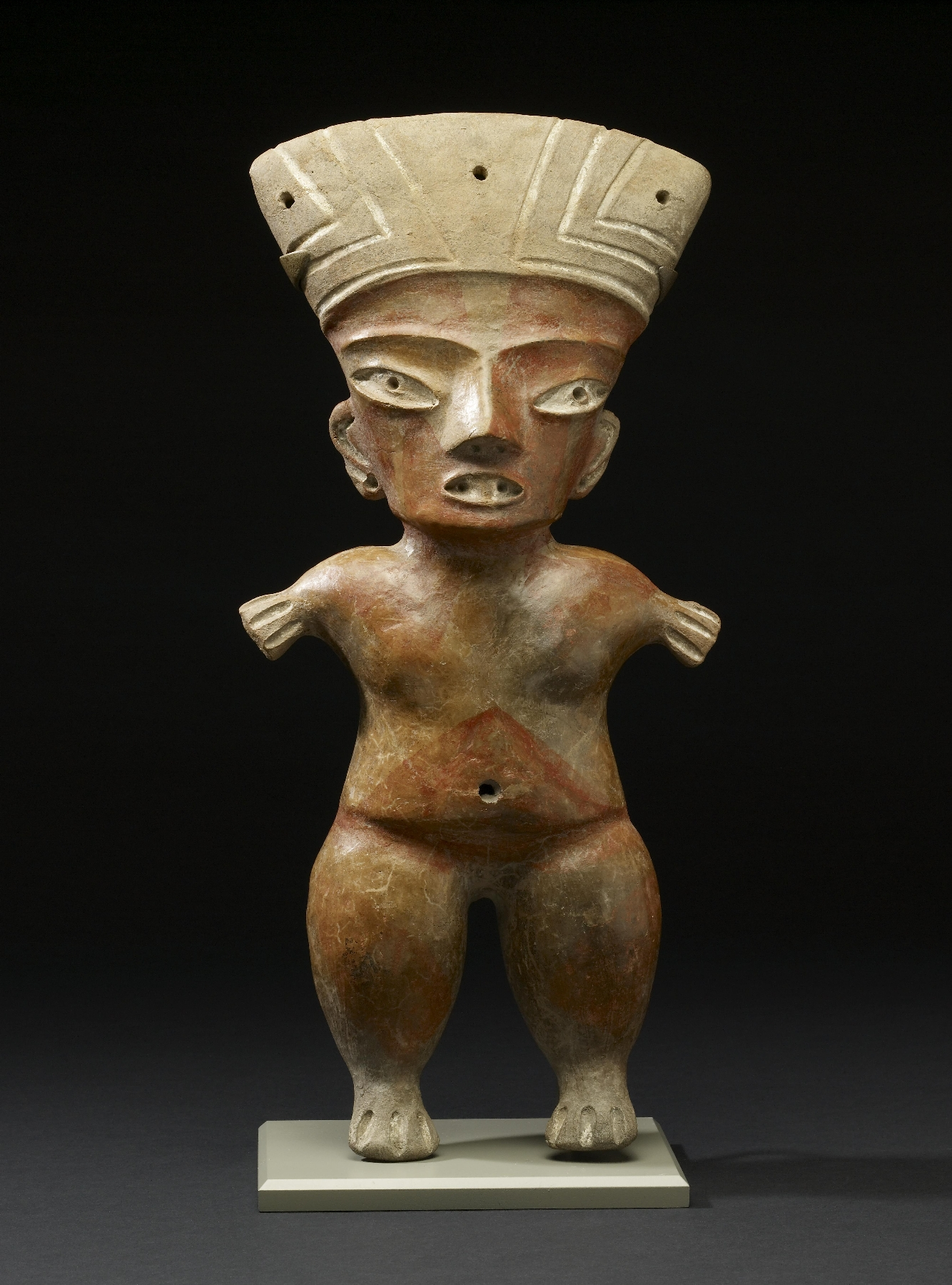 Large, hollow figures epitomize the sculptural expertise of the earliest pottery artists in the central Mexican highlands. Found in burials at sites in the Valley of Mexico, such as Tlatilco and Tlapacoya, and many others in the adjacent states of Morelos and Puebla, these figures typically portray nude women. Artists accentuate the hips and firm breasts while reducing the arms and feet to small, simplified forms. This corporeal focus has prompted some scholars to interpret them as fertility objects pertaining to female rites of passage or fecundity. An alternative view sees the figures as representations of religious practitioners in the throes of shamanic trance. This interpretation calls attention to the artistic accentuation of the head and the careful rendering of elaborate head wraps or coiffures. Frequently, too, these figures' mouths are rendered slightly open and their eyes stare blankly into space. These features recall renderings of shamanic trance throughout the Americas. Both figures have scored ears, which the Spanish observed among many Native priests in highland Mexico and Yucatan, cut during blood-offering rituals that served both religious ideology and the achievement of a spiritual trance state.